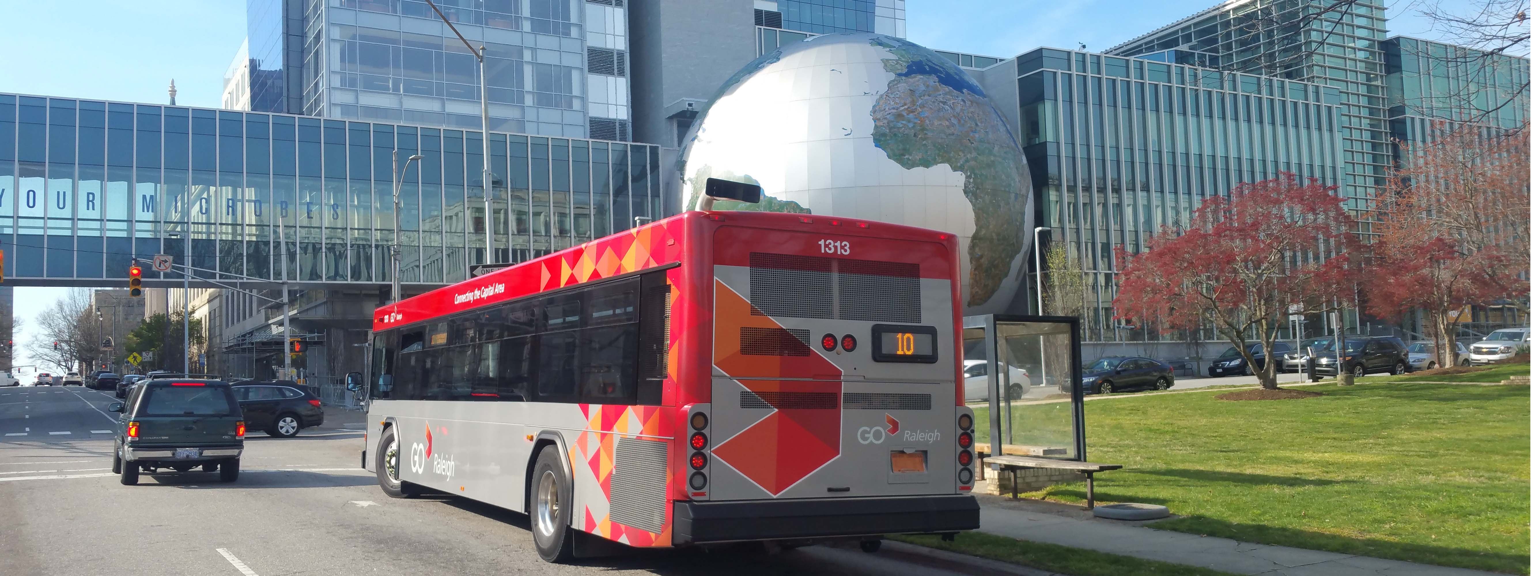 GoRaleigh bus at the North Carolina Museum of Natural Science.